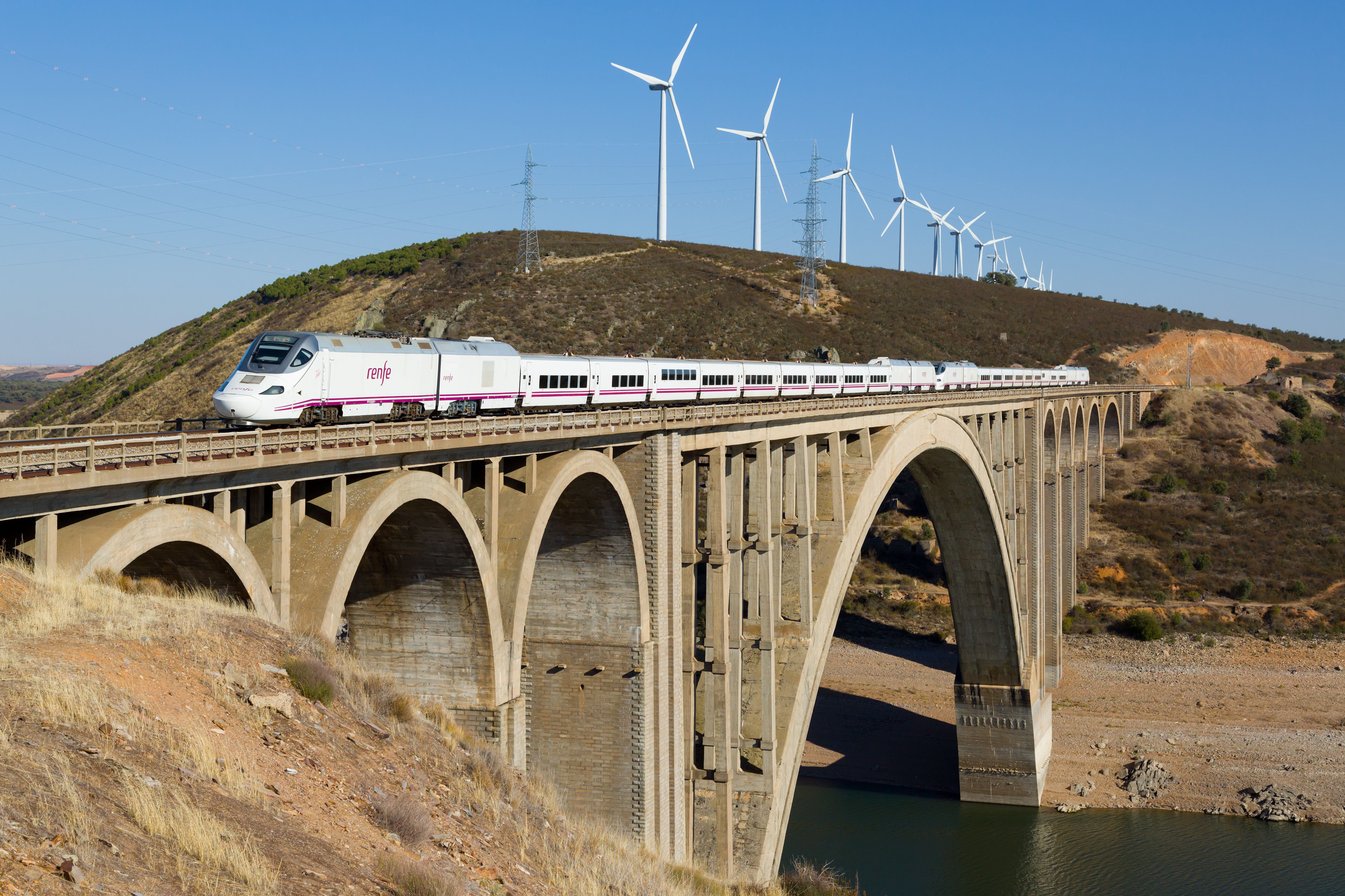 Two RENFE class 730 "Dual-mode Patito" ("duckling") crossing the Viaducto Martin Gil near Zamora, Spain.